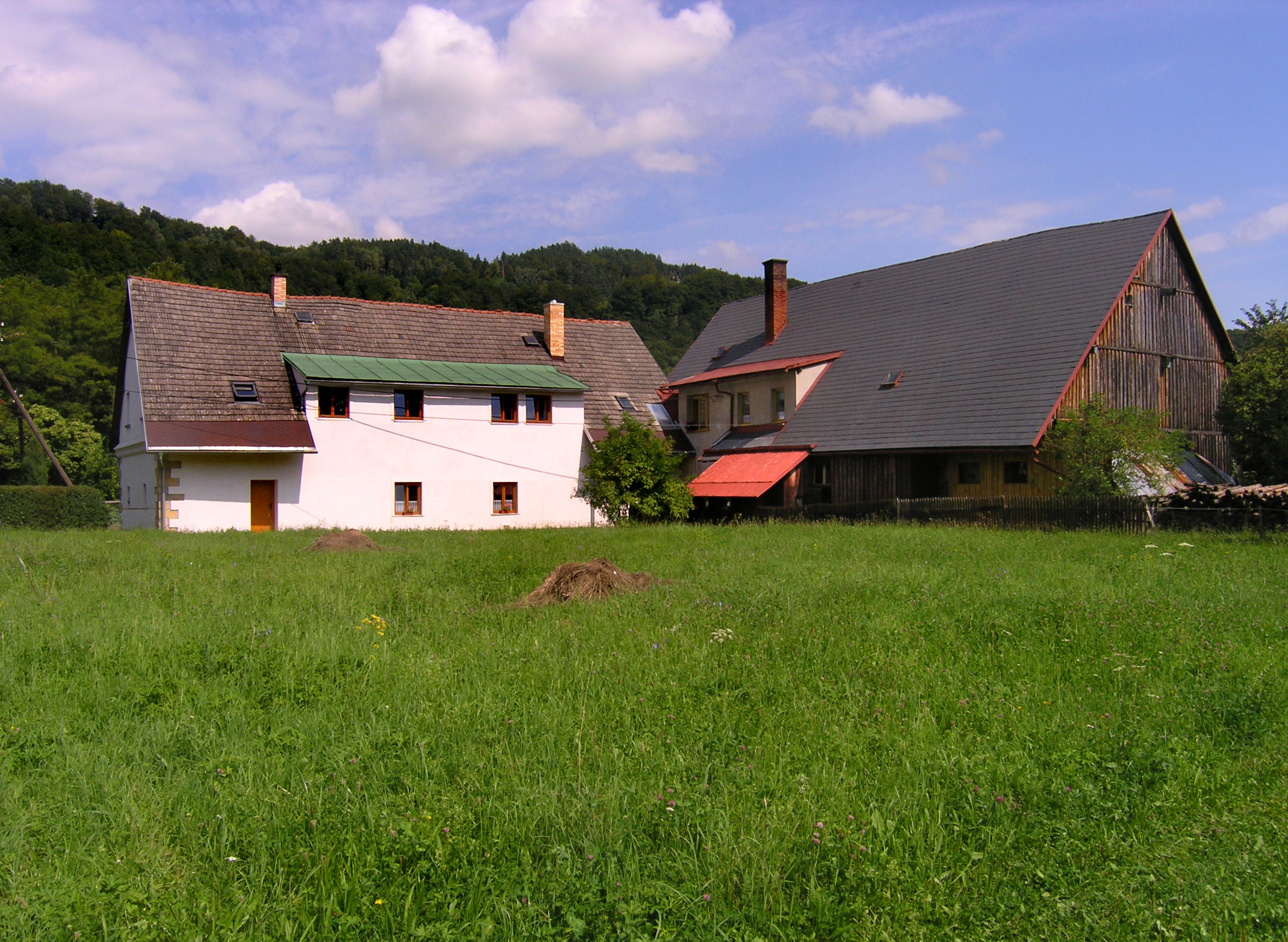 Rakousy by Turnov, Czech Republic